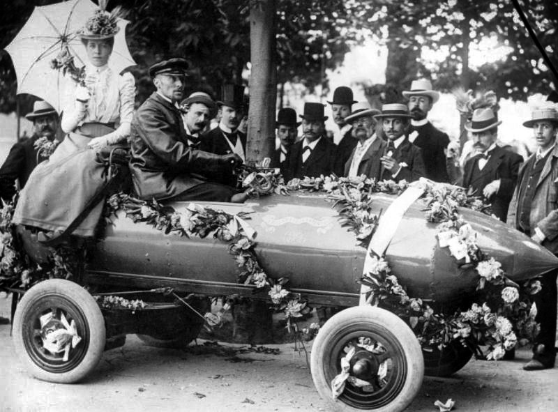 Driver Camille Jenatzy in Jamais Contente : first automobile to reach 100 km/h in 1899.